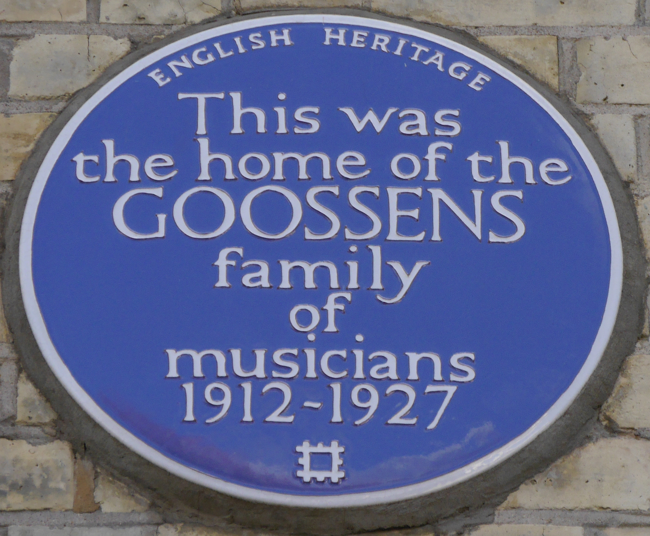 Blue plaque erected in 1999 by English Heritage at 70 Edith Road, West Kensington, London W14 9AR, London Borough of Hammersmith and Fulham